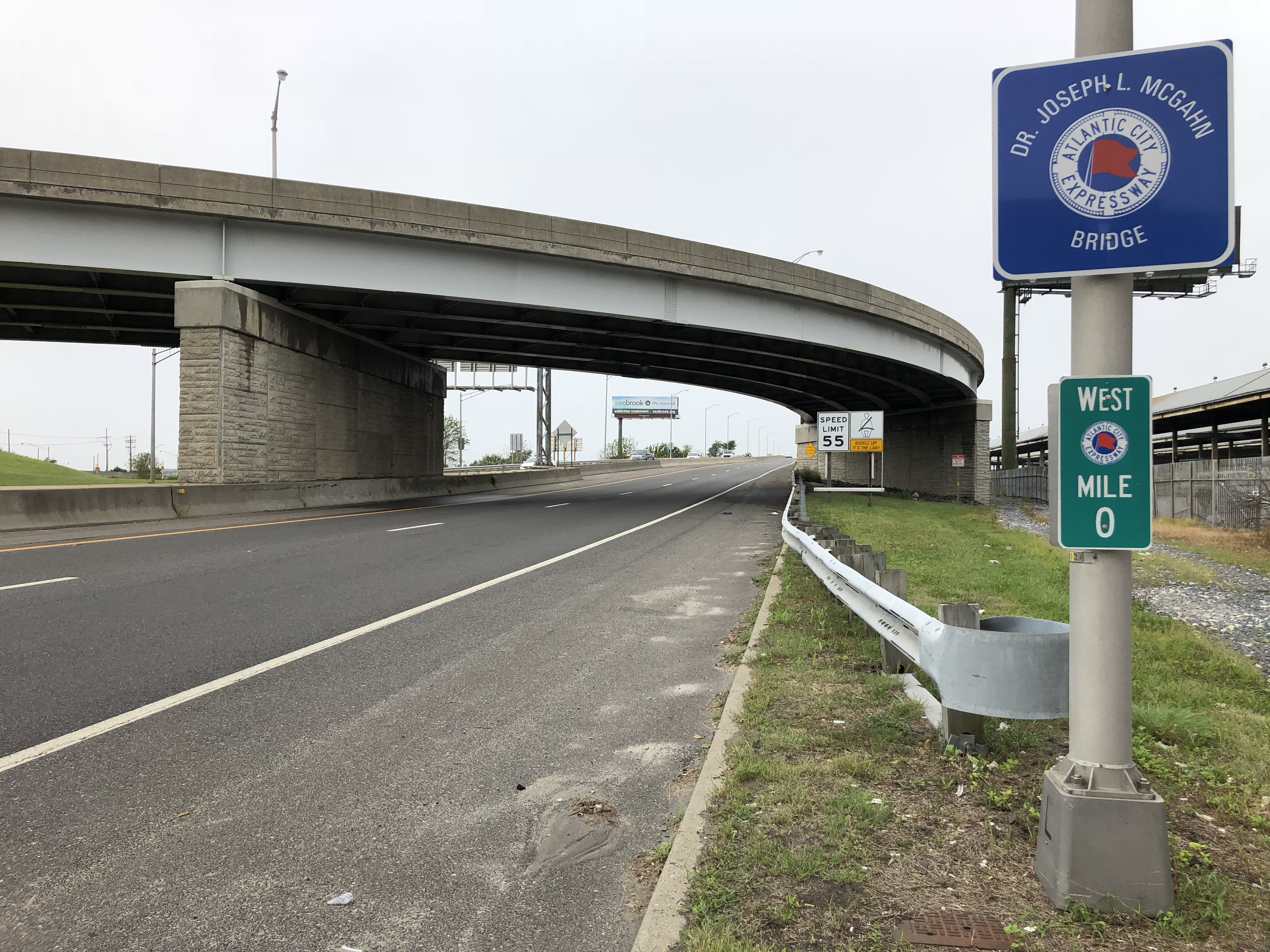 View west at the east end of New Jersey State Route 446 (Atlantic City Expressway) just west of Fairmount Avenue and Baltic Avenue in Atlantic City, Atlantic County, New Jersey